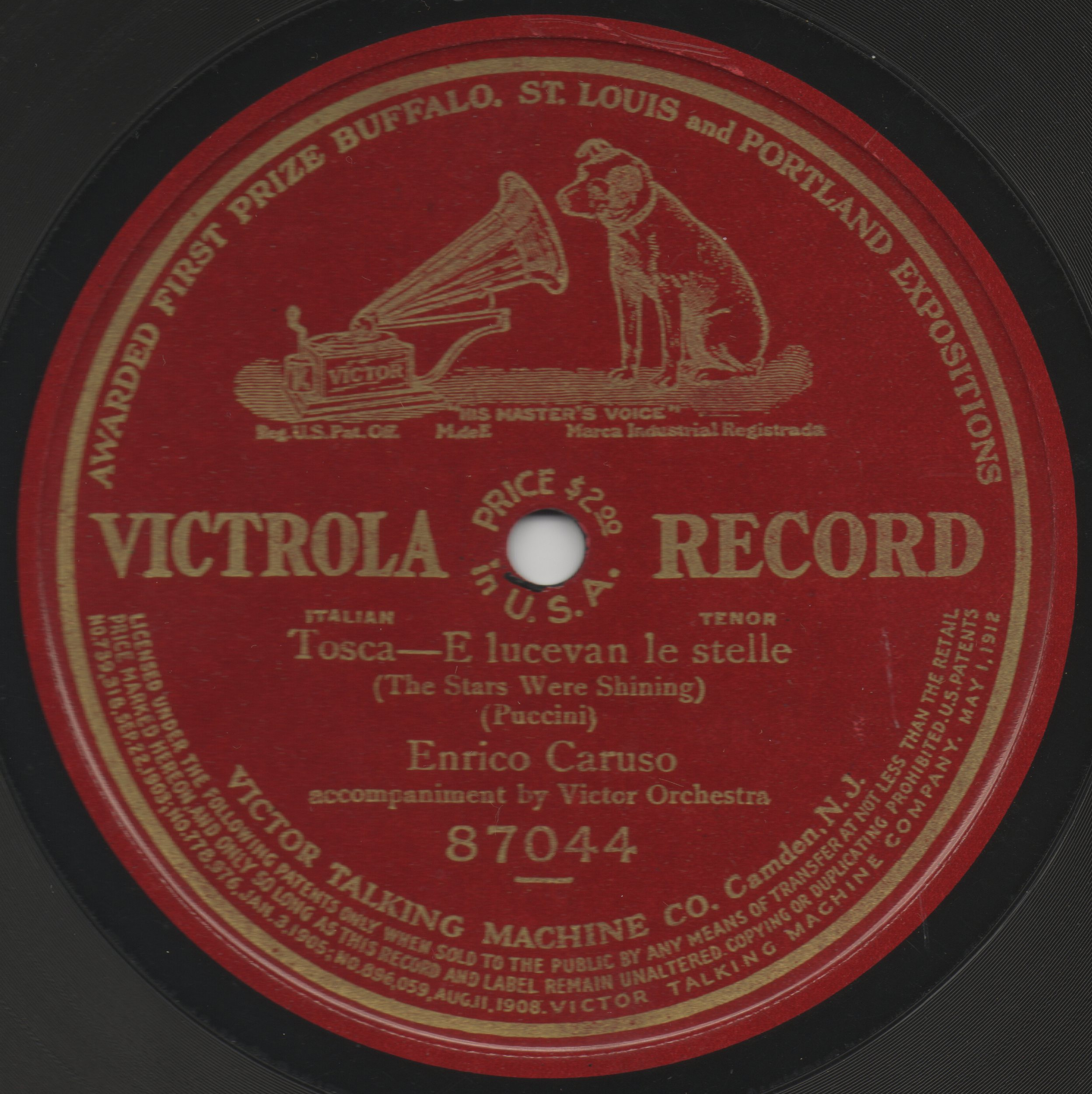 Label scan of an early Victor Red Seal record, with the "Patent" label variation. The disc features Enrico Caruso singing "E lucevan le stelle" from Giacomo Puccini's 1900 opera Tosca.